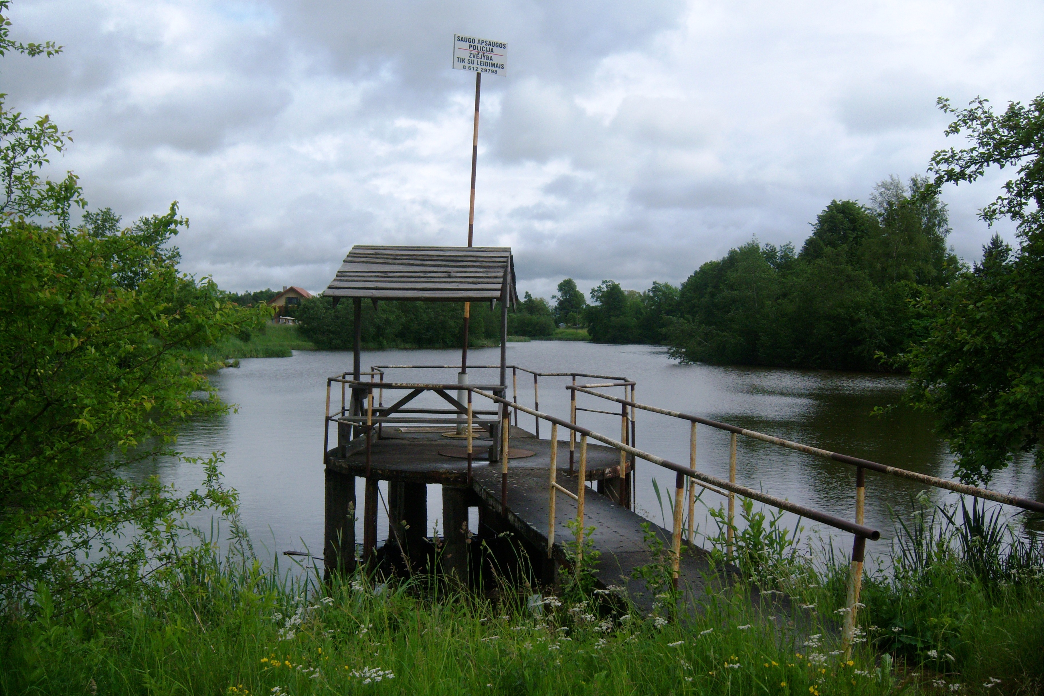 Pond in Sausinė, Kaunas district. Lithuania